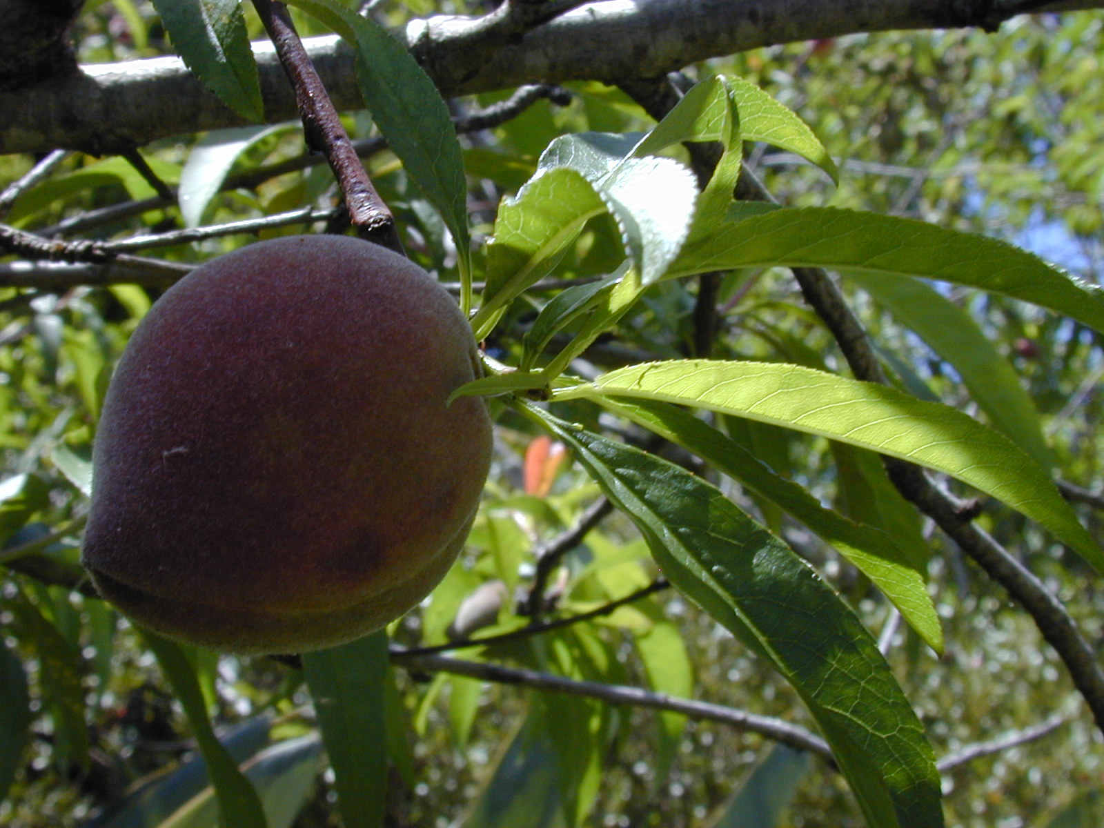 Prunus persica (fruit). Location: Maui, Makawao